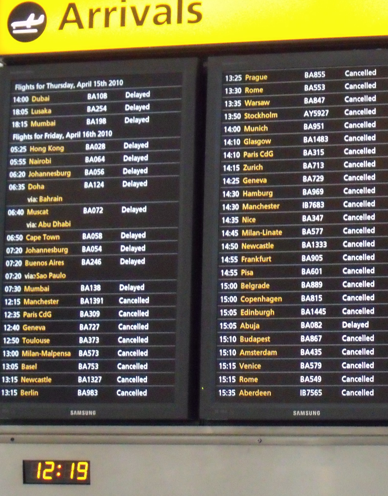 Cancelled—an arrivals board in Heathrow's Terminal 5 on April 16, 2010, the second day on which UK airspace was closed by volcanic ash from Iceland-cropped version to show up better when using default picture size.